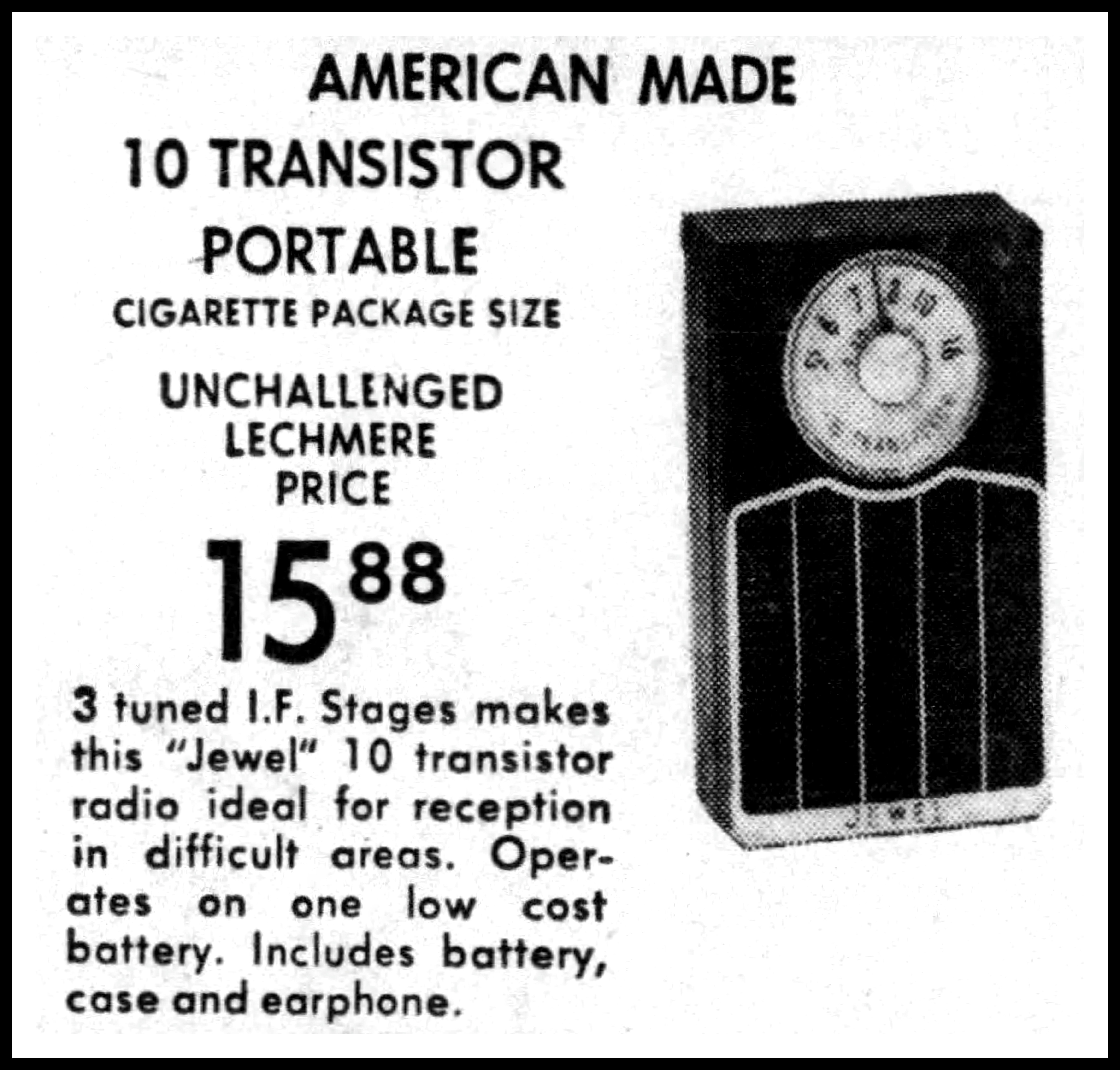 Vintage Advertising For The Jewel Model T.S.-10 Transistor Radio In A Lechmere Store Ad In The Boston Globe Newspaper, June 27, 1962